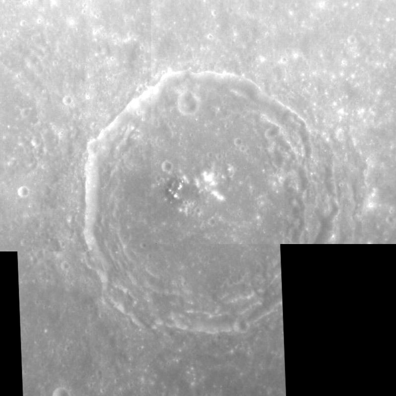 Calvino crater on Mercury. Mosaic of MESSENGER Narrow Angle Camera images (EN1005628651M, EN1005628722M, EN1005628724M). Bottom image is rotated and scaled to match the other two. Approximate north is at top. Statistics for the left image: Emission Angle: 16.6 Incidence Angle: 23.8 Latitude: -3.4 Longitude: 304.4 Phase Angle: 40.3